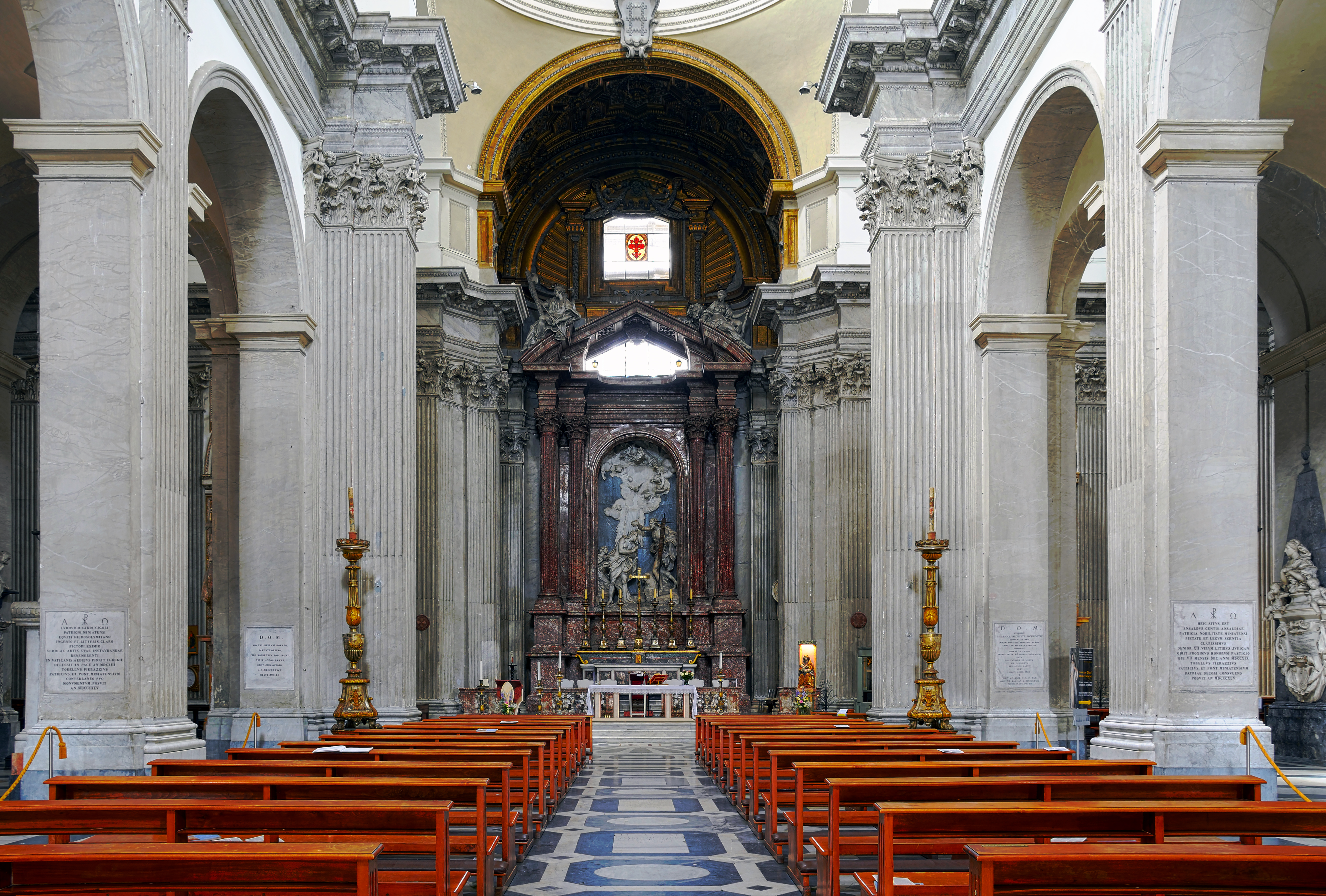 Church of San Giovanni Battista dei Fiorentini - interior HDR